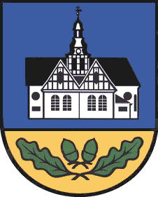 Coat of Arms of Mackenrode